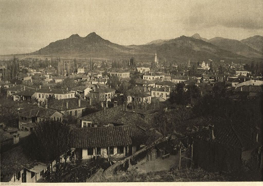 Prilep, Macedonia